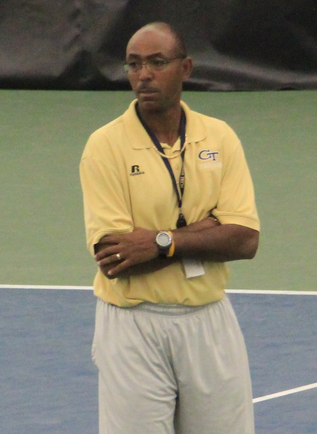 Tennis coach Rodney Harmon, 2014